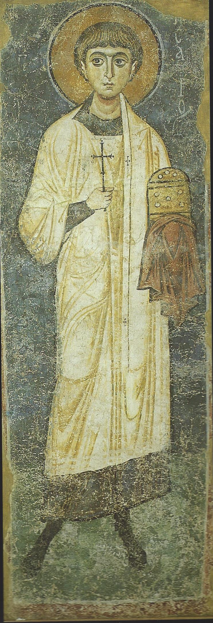 Frescopainting in Vodoča Monastery (XI c.), Macedonia